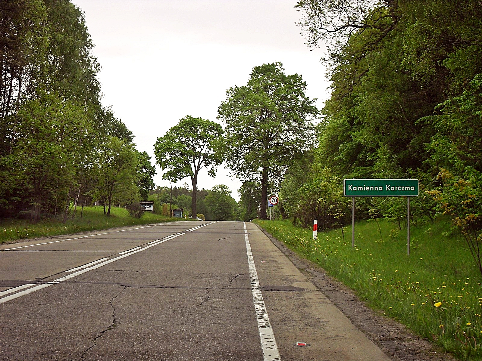 Kamienna Karczma at the national road 22